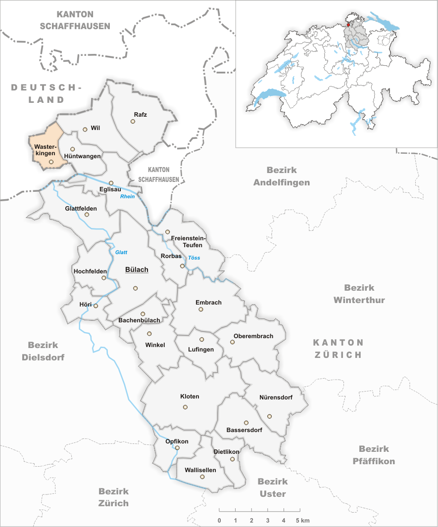 Municipality Wasterkingen